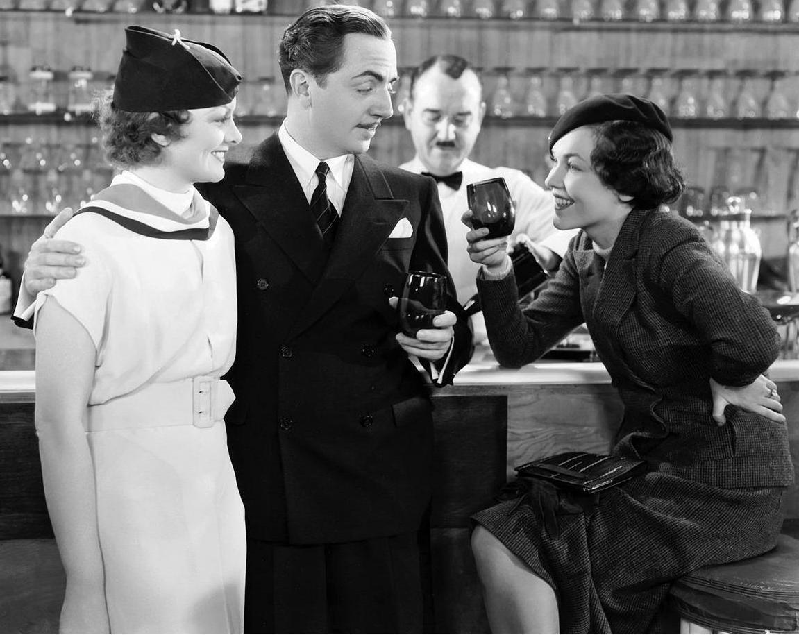 Still with Myrna Loy, William Powell, William H. O’Brien (in background), and Maureen O’Sullivan in The Thin Man (1934).